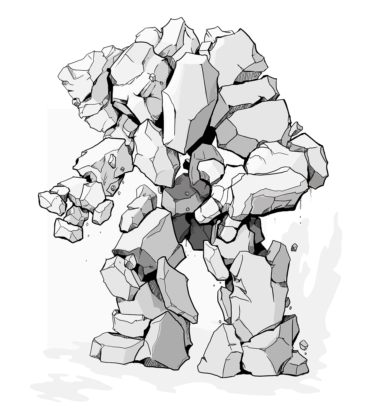 In the Dungeons & Dragons fantasy role-playing game, an elemental is a type of creature. Elemental creatures are composed of one of the four classical elementals of air, earth, fire, or water.